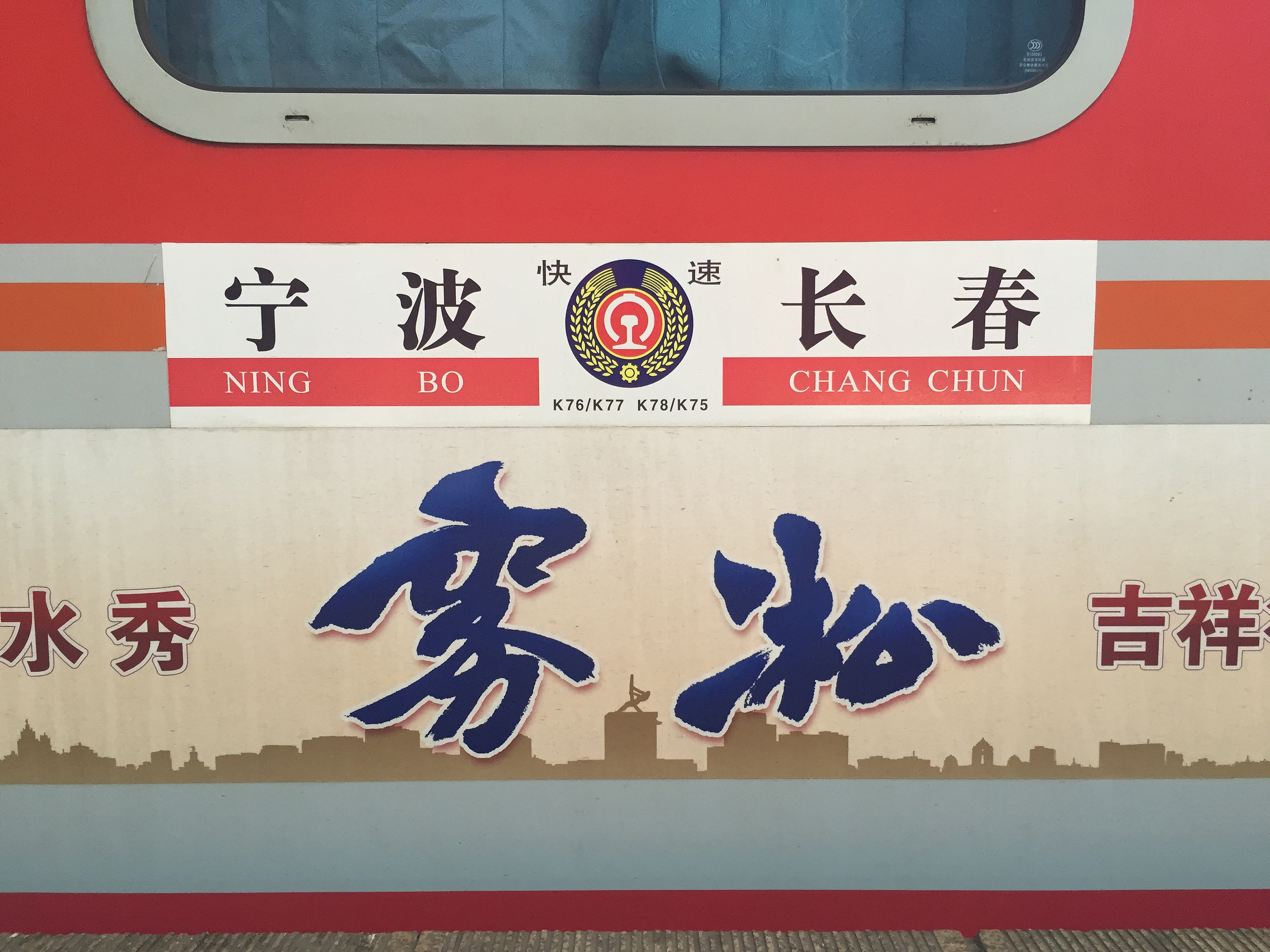 This train is named after the hard rime in Jilin City...this is Jilin City's first and only train to Shanghai.